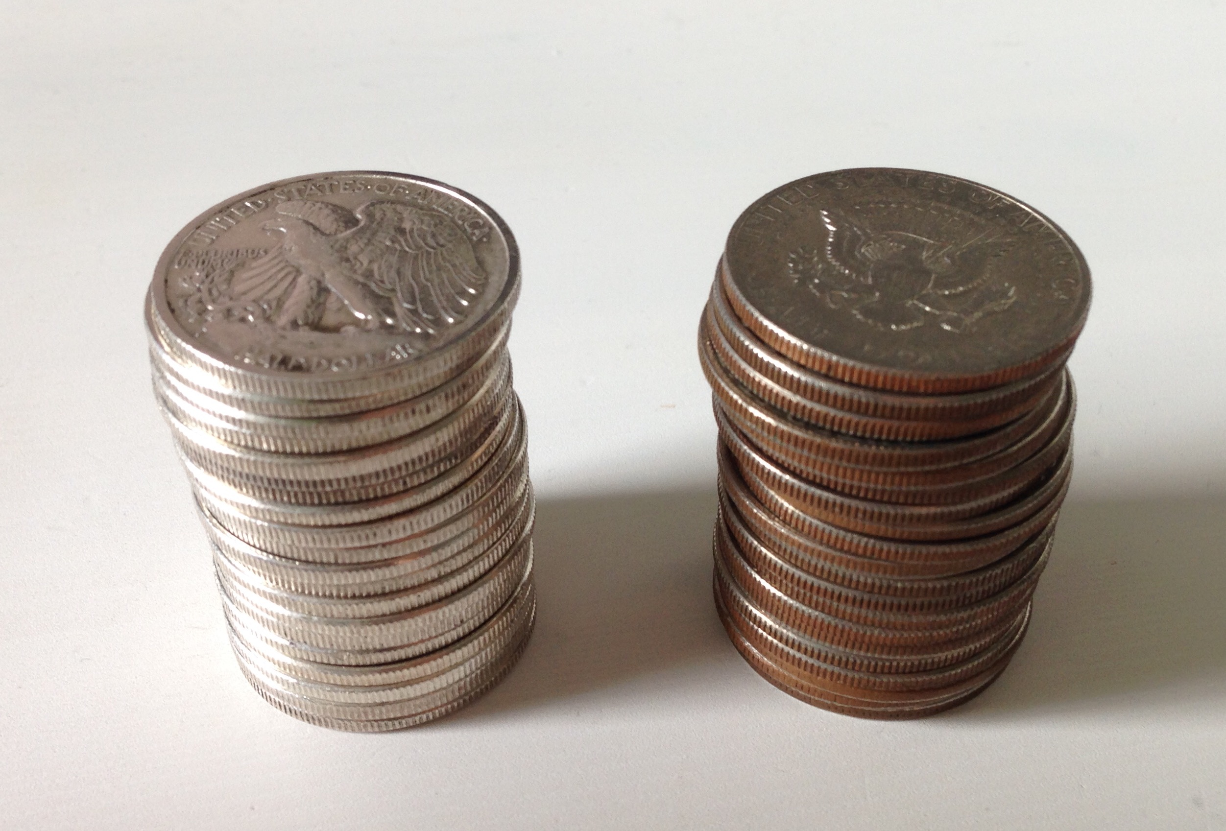 Two stacks (unwrapped rolls) of Half dollars, demonstrating the effects of the Coinage Act 1965 in action - the stack of clad post-1971 half dollars can instantly be recognised by the reddish-brown copper cores visible from the edges of each coin, while the silver Walking Liberty half dollars have bright white edges and faces.